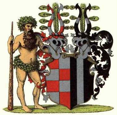 Coats of arms of the Bille-Brahe family